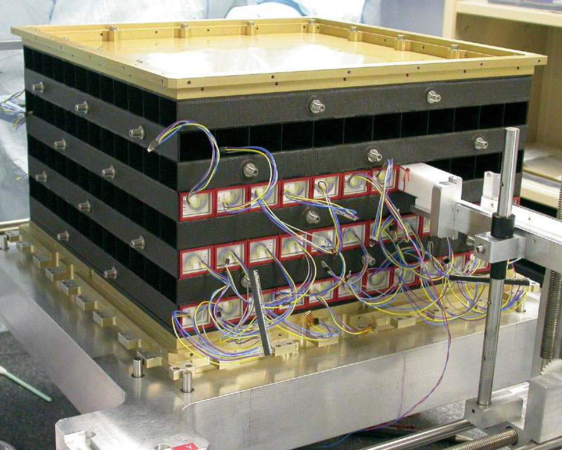 Instrument LAT of the gamma space telescope Fermi : Calorimeter module shown during insertion of the crystal detectors.